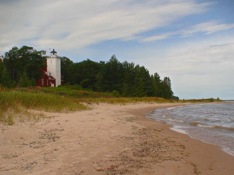 Forty Mile Point Light is a lighthouse in Northern Michigan, in Presque Isle County on Hammond Bay on the western shore of Lake Huron in Rogers Township, Michigan USA. Unlike many Great Lakes lighthouses, Forty Mile Point Light does not mark a significant harbor or river mouth.